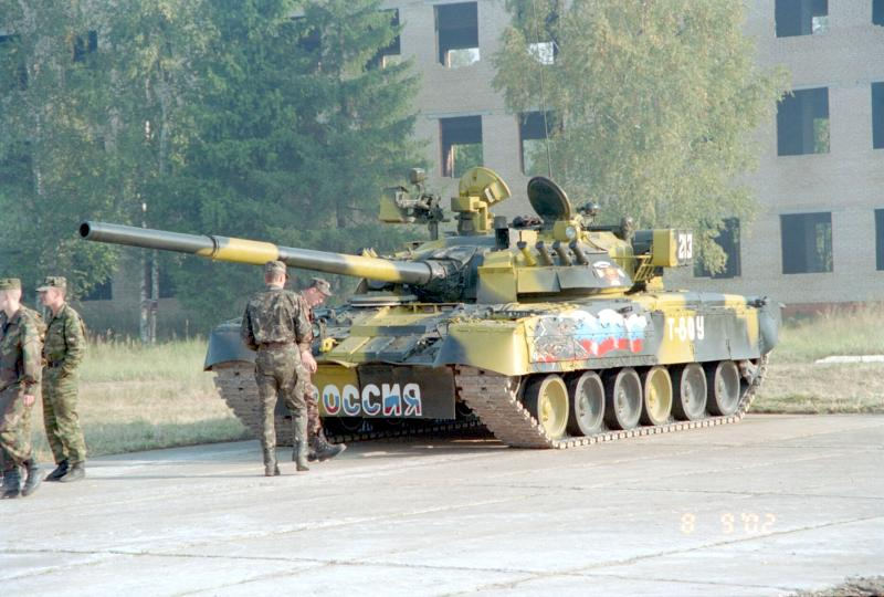 Russian tank T-80U.